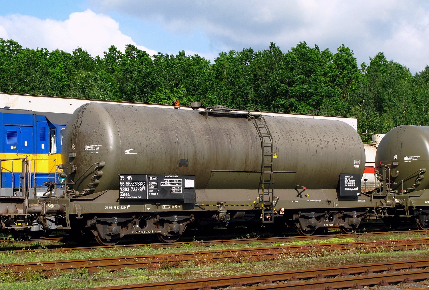 Zaes 35 56 788 3 722-8 (owned by Slovakian Railways - Cargo daughter freight operator, leased to Slovnaft Bratislava), used for oil products, in this case with heating heavy crude oil. Spotted in Brniste station (Czech rep.) (05/2009).